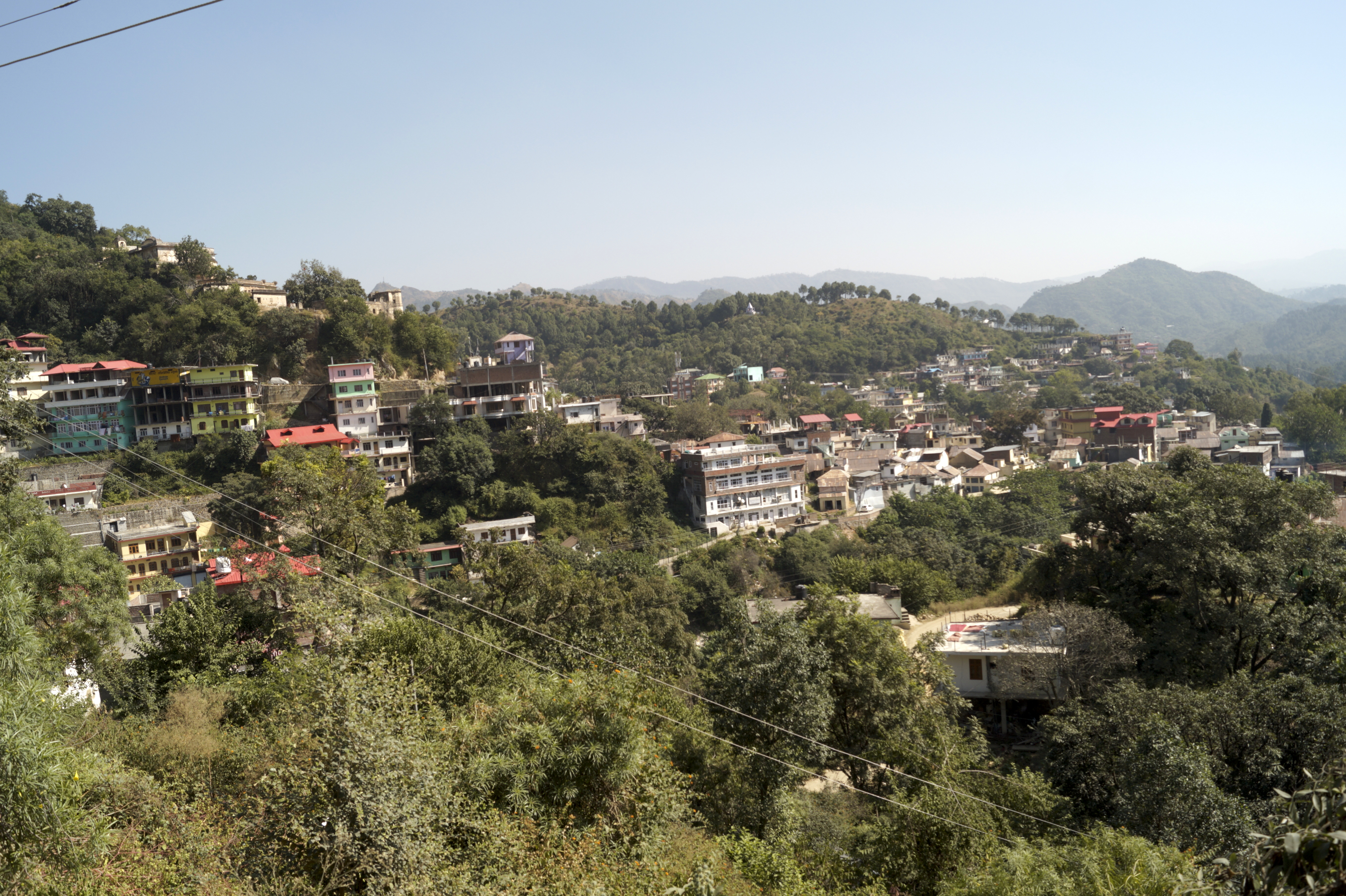 Arki town , Himachal Prades,India